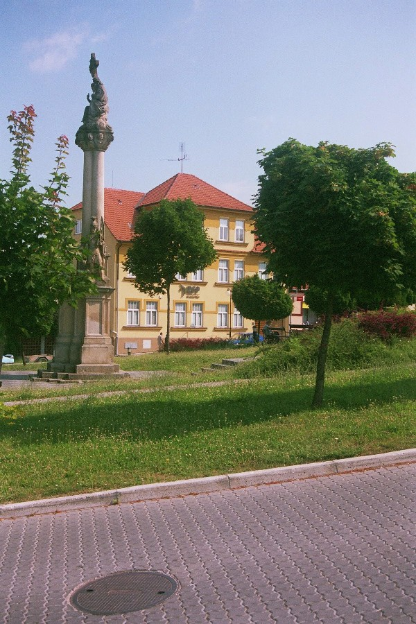 Peace Square, Holíč, Slovakia